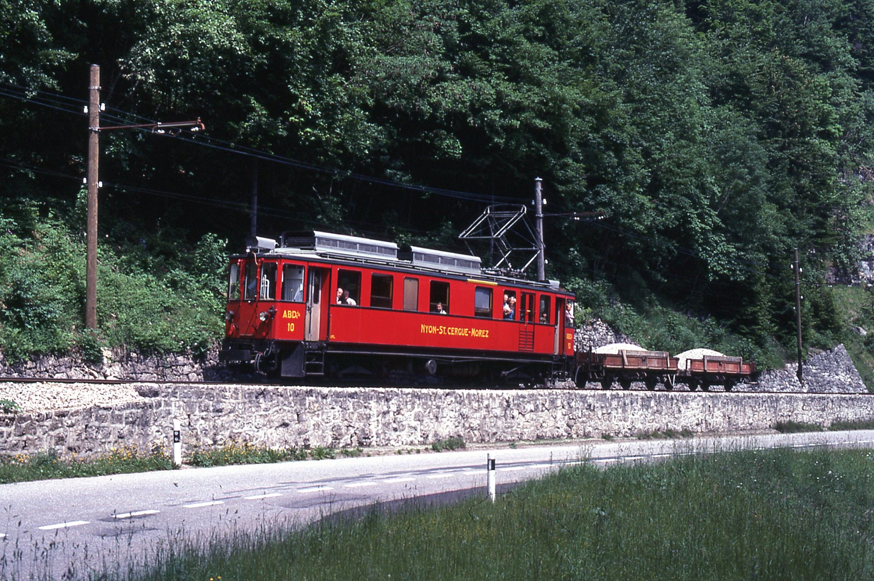 Narrow gauge railway Nyon–Saint-Cergue–La Cure